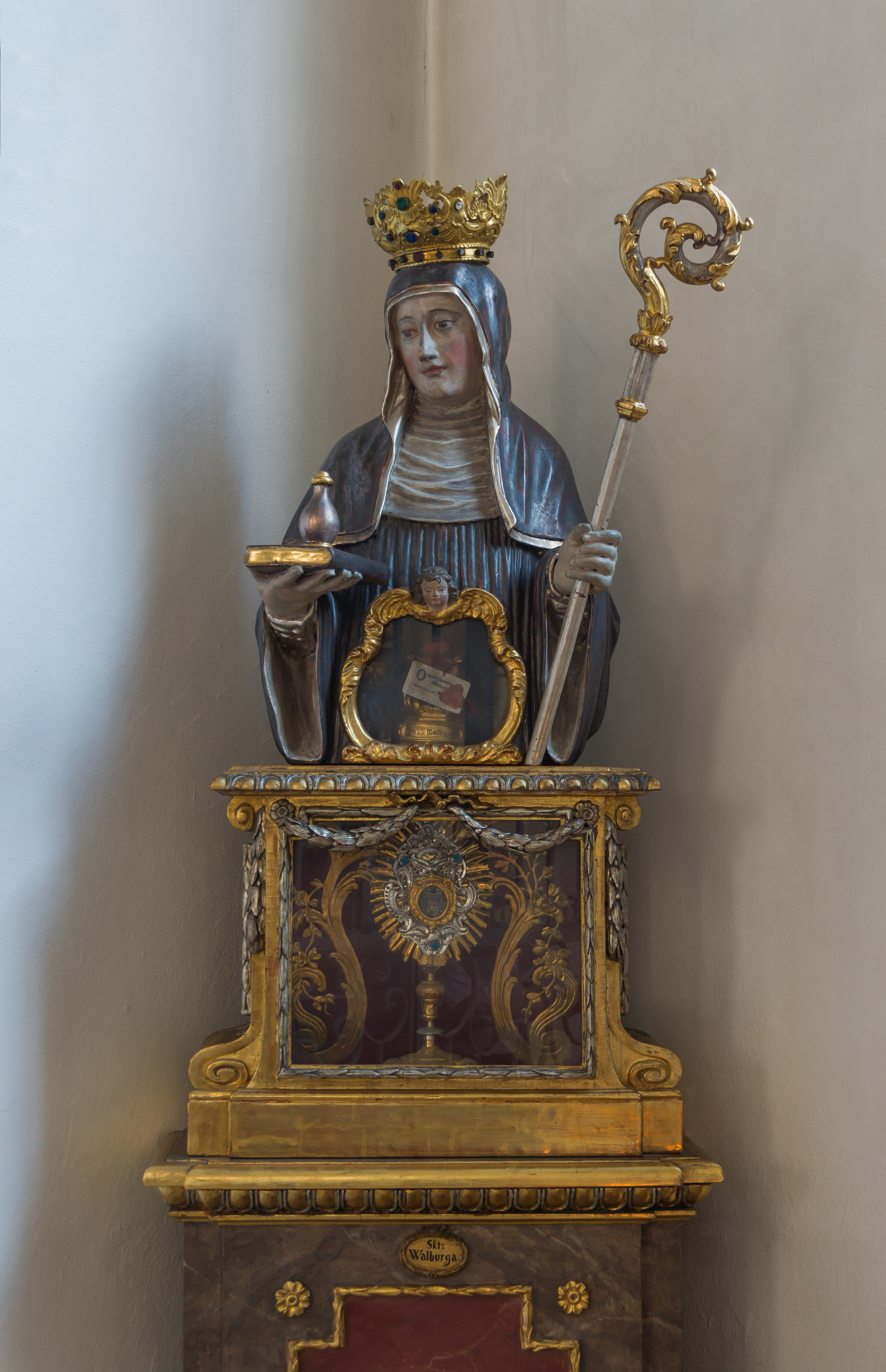 Saint Walpurga reliquary, Peterskirche, Munich, Bavaria, Germany.